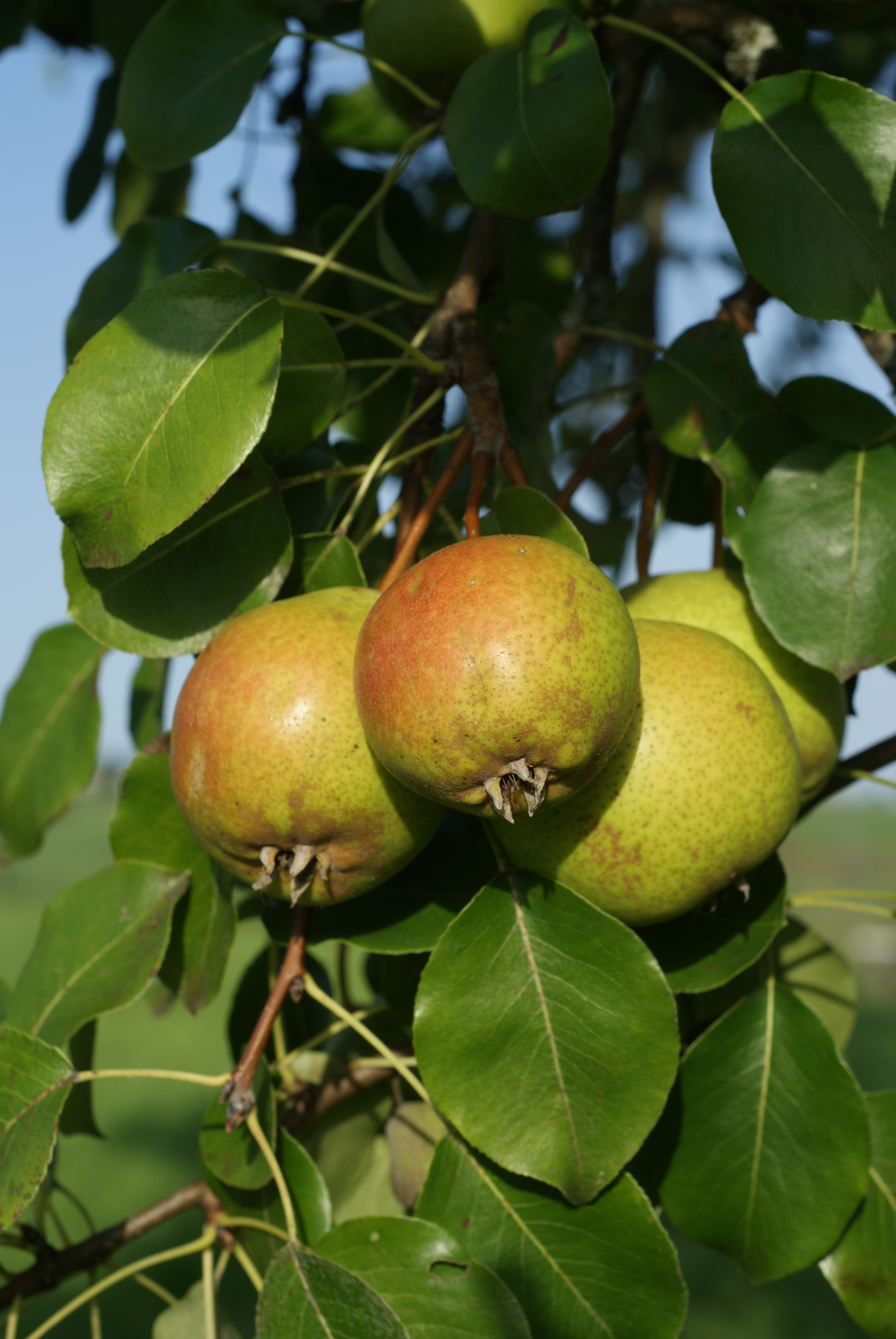 Fruit of "Gelbmöstler", a pear variety which can be found mainly in the Bodensee region (D, AU, CH) and northern Switzerland.